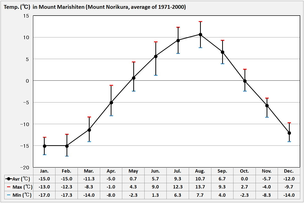 Temperature of Mount Norikura (Mount Marishiten 2,872 m) in 1971-2000